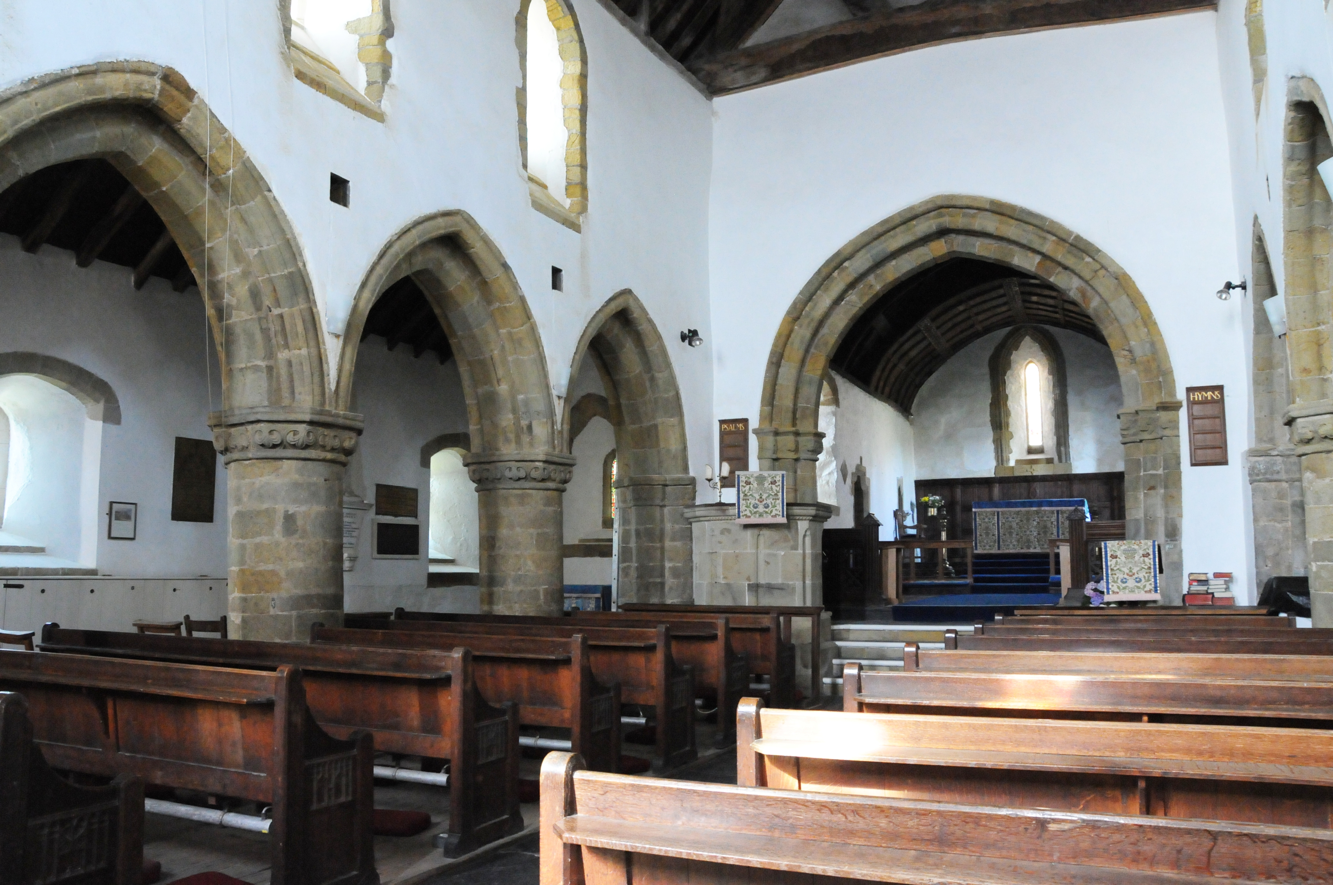 Norman Church St. Mary and Bodfan in Llanaber (Barmouth), Wales